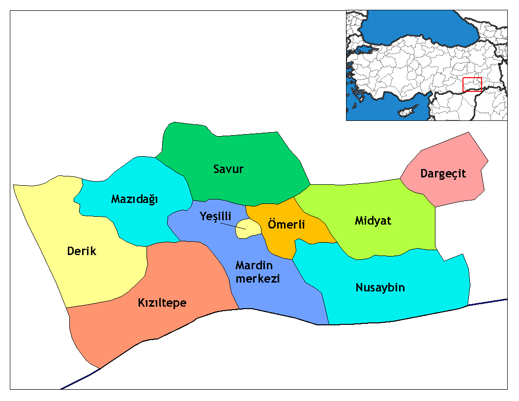 Map of the districts of Mardin province in Turkey. Created by Rarelibra 16:36, 4 December 2006 (UTC) for public domain use, using MapInfo Professional v8.5 and various mapping resources. Edited by One Homo Sapiens Corrected text where İ,Ş,ı,ğ,or ş occurs in name. Source: [statoids-com]. Increased font size and enhanced color differences among adjacent districts.